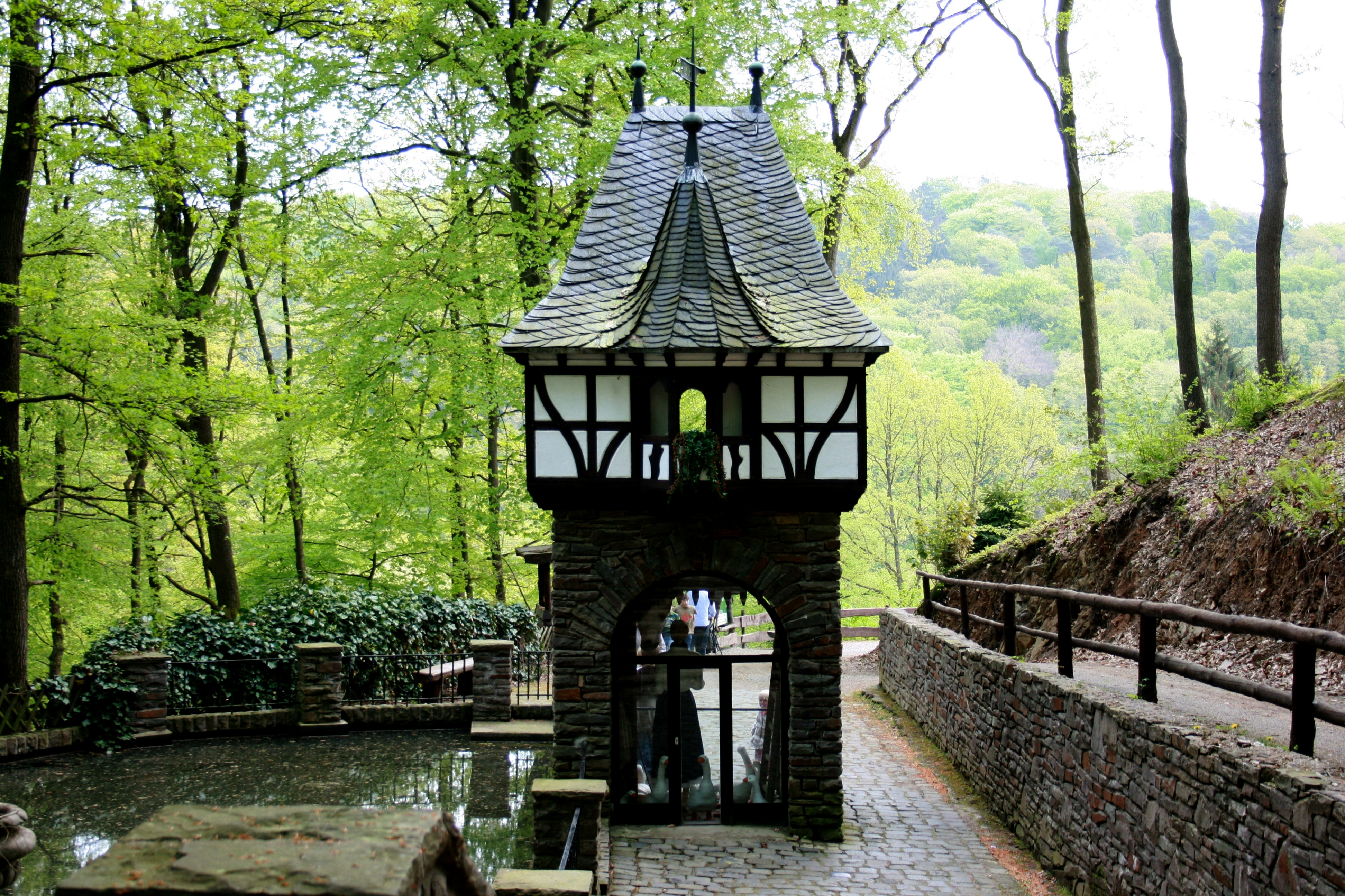 Deutscher Märchenwald Altenberg, Märchenwaldweg 15 in Altenberg, Odenthal